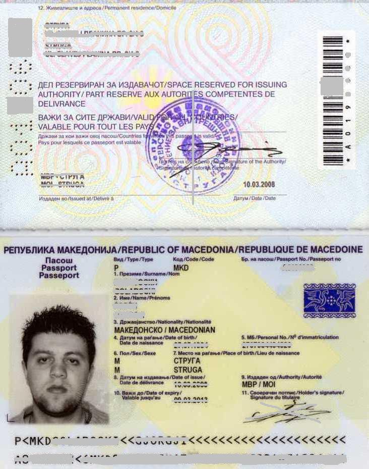 First Page of the Macedonian biometric passport.